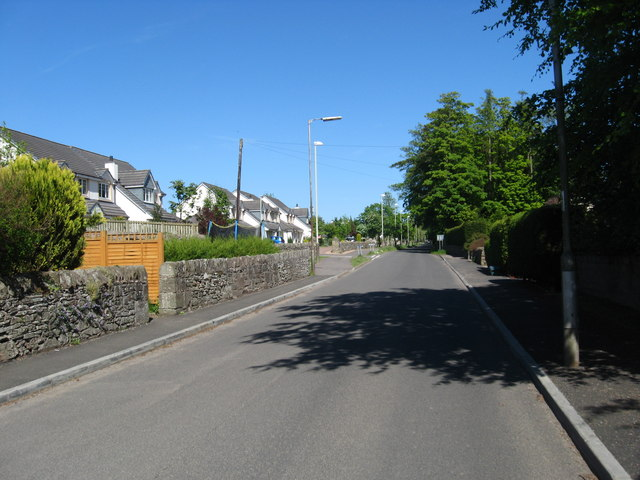 The main street in Liff in Angus